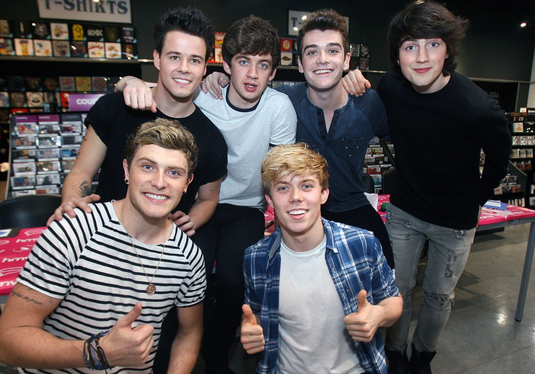 Hometown (band) Left to right: (up) Dyal, Cian, Ryan and Brendan (down) Dean and Josh.